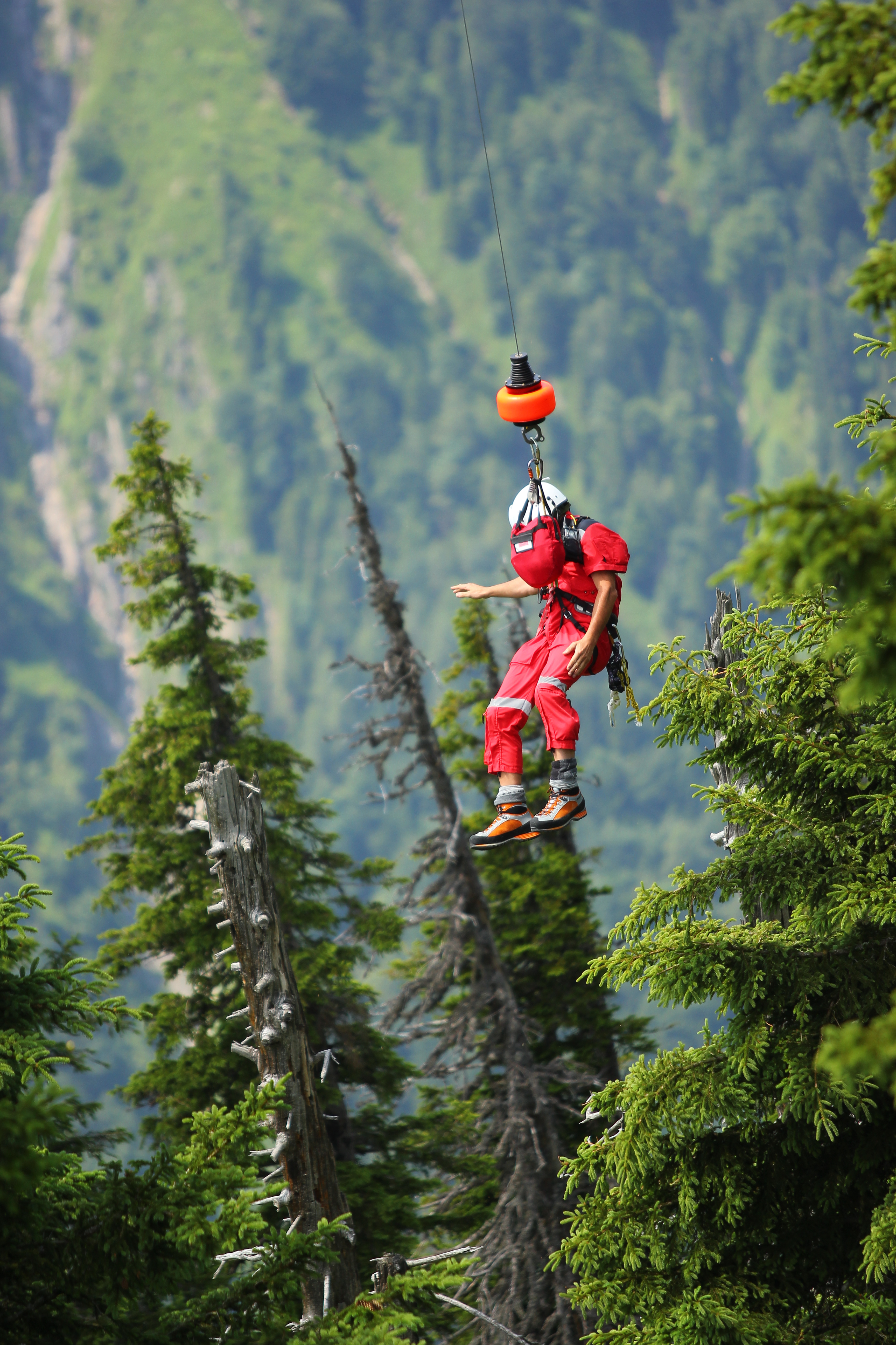 A rescue worker is rappels down the helicopter 'Christoph 1', D-HMUM during a mountain rescue operation on top of the Bodenschneid in the Alps.